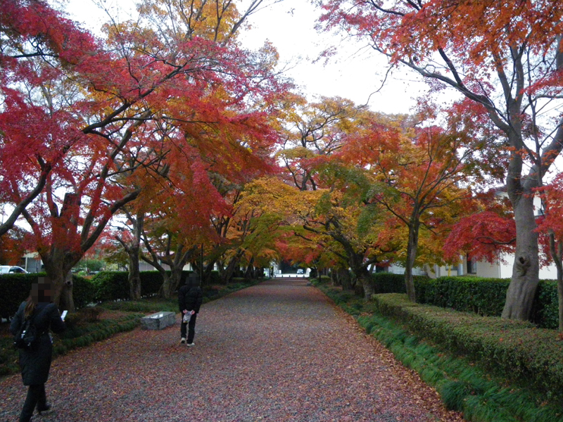 Approach to the grave of Oyama Iwao, in autumn. Nasushiobara, Tochigi, Japan.